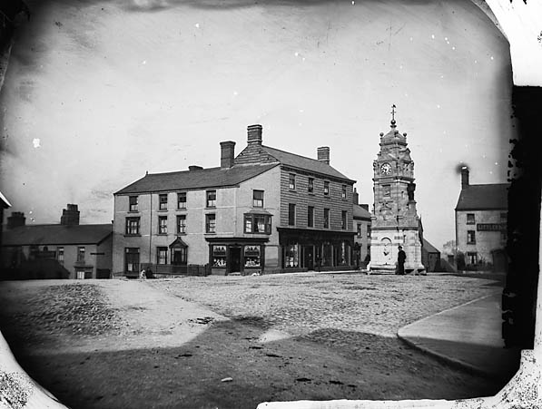 1 negative : glass, wet collodion, b&w ; 16.5 x 21.5 cm.